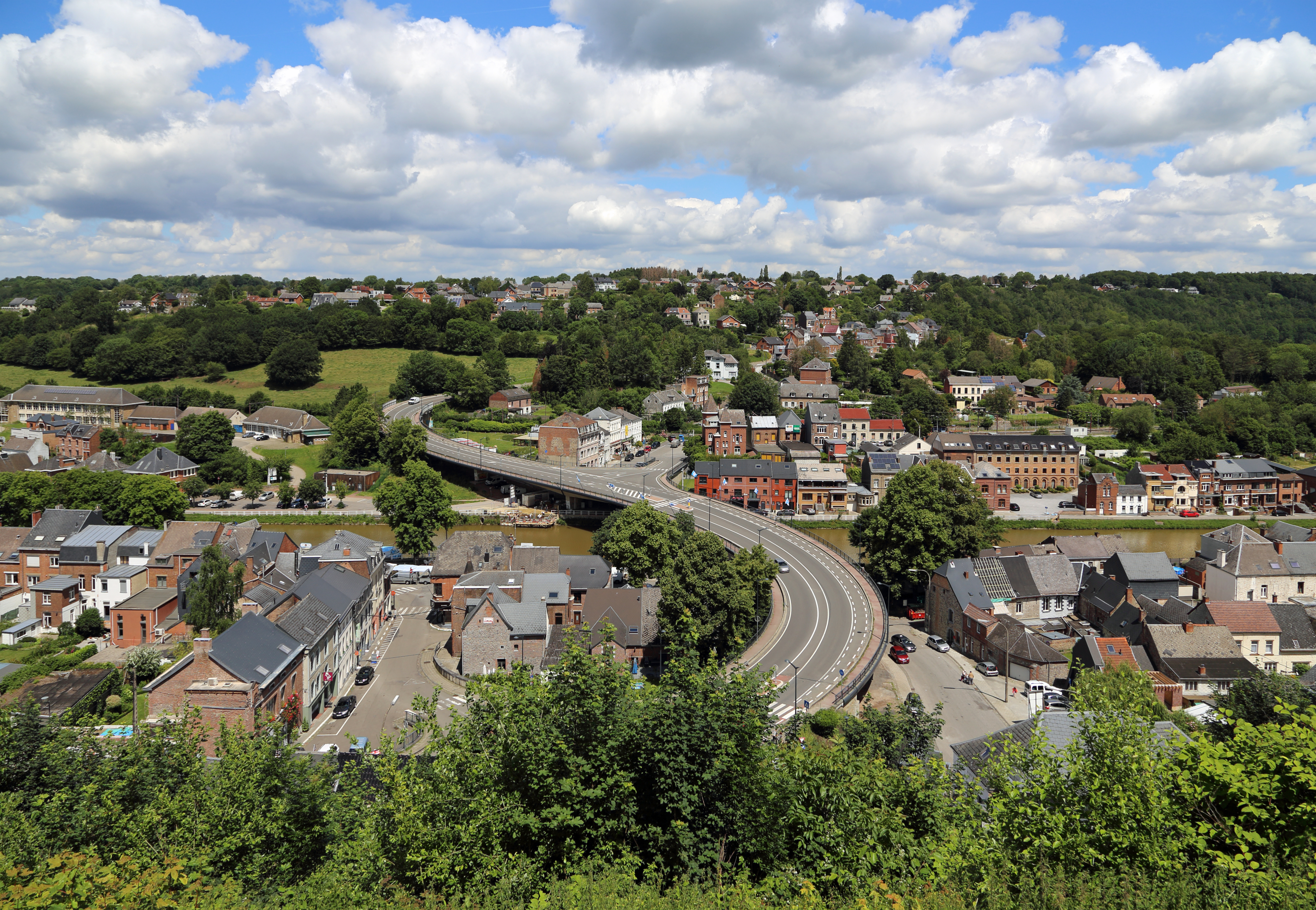 Thuin (Belgium): the lower part of the town (Ville-Basse), with the Sambre river and the road bridge (also called "Viaduc en S")